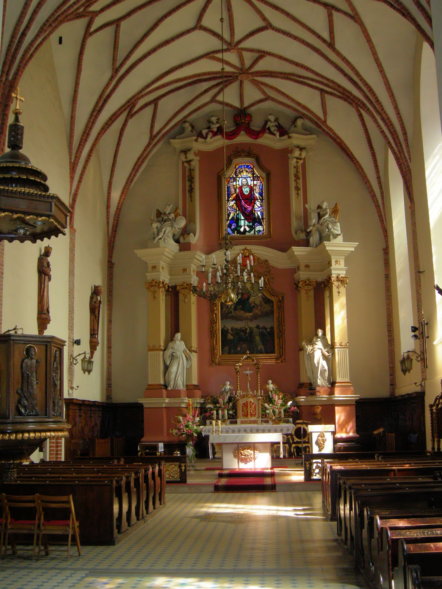 Śrem, Church of the Assumption of the Blessed Virgin Mary.